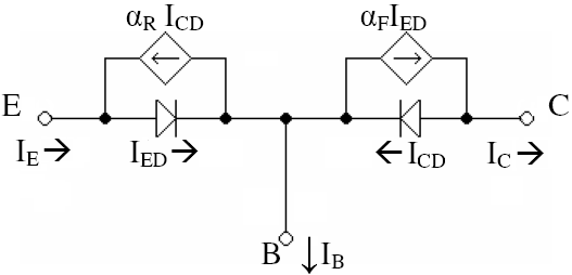 Drawn using "Klunky" and added the minor details using MS-WORD